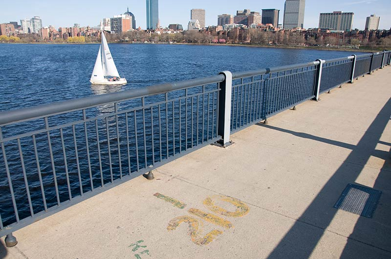 Smoot mark 210 on the downstream side of the Harvard Bridge, looking toward Boston.